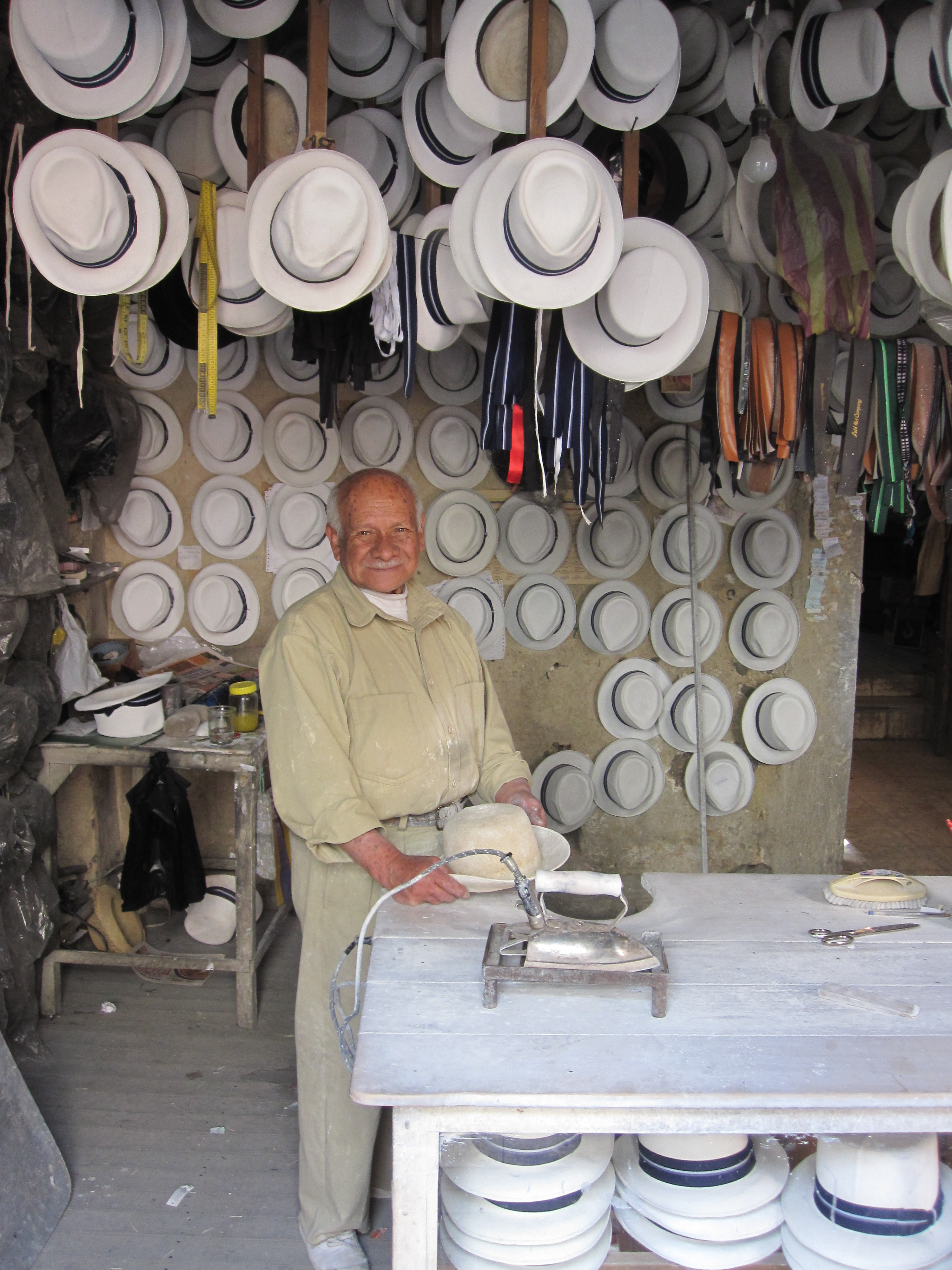 Seller and maker of paja toquilla hats. This is the style of hat worn traditionally by all women in the surrounding towns and villages. Cuenca, Ecuador.